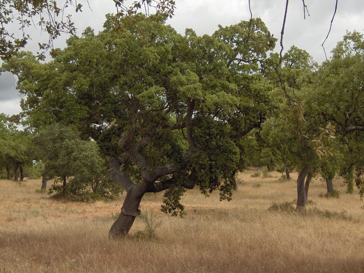 Cork oak (Quercus suber) - habit